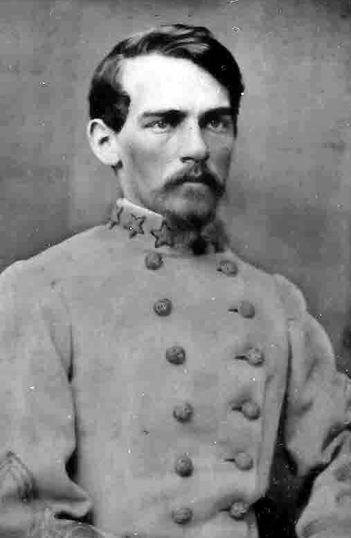 Lieutenant Colonel Walter Herron Taylor, Confederate States Army